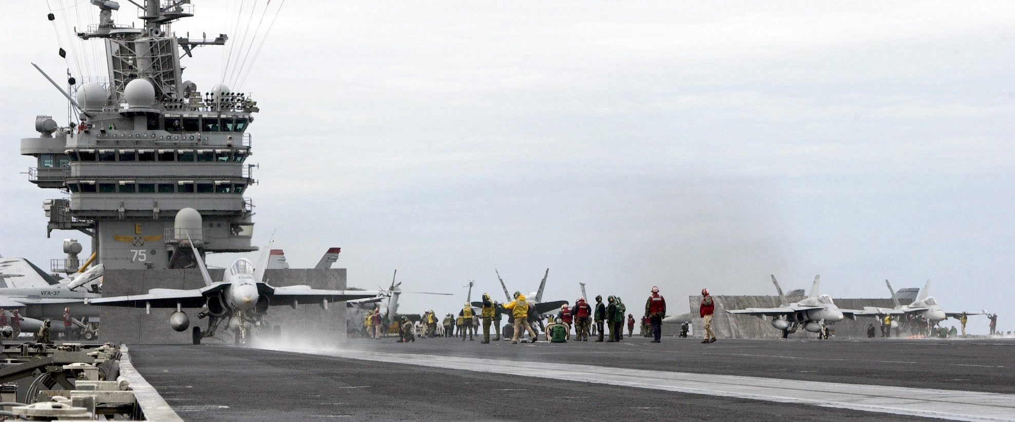 030125-N-1058W-003 At sea aboard USS Harry S. Truman (CVN 75) Jan. 25, 2003 -- F/A 18 “Hornet” strike fighter aircraft line up for catapult launches from the ship’s flight deck. Truman and her embarked Carrier Air Wing Three (CVW-3) are on a regularly scheduled six-month deployment in support of Operation Enduring Freedom.